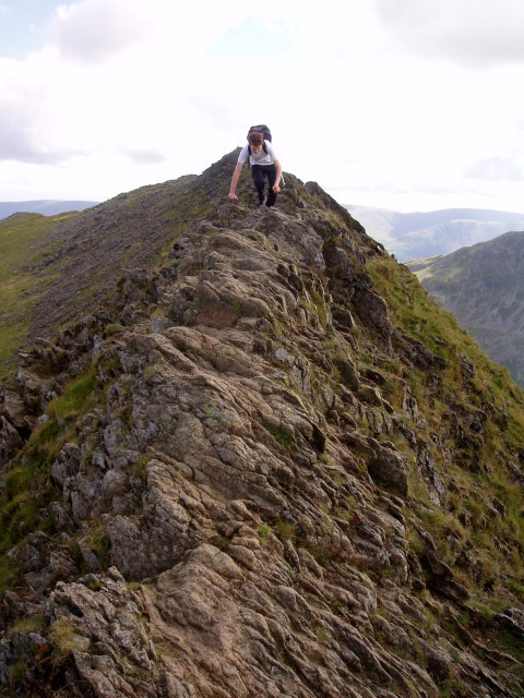 Striding Edge Scramble.